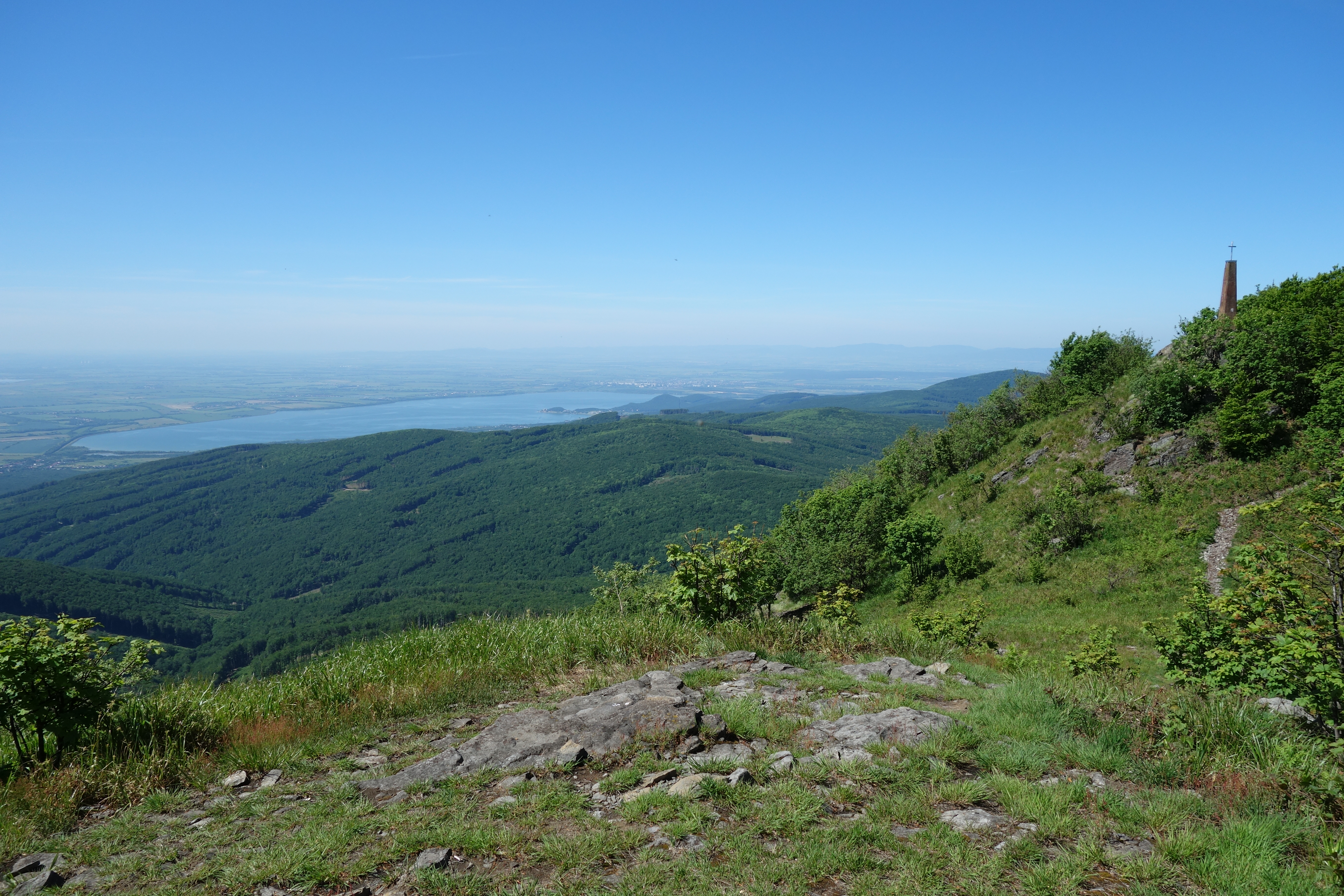 View of Zemplínska šírava from the top of Vihorlat peak This is a photography of Natura 2000 protected area with ID SKUEV0025